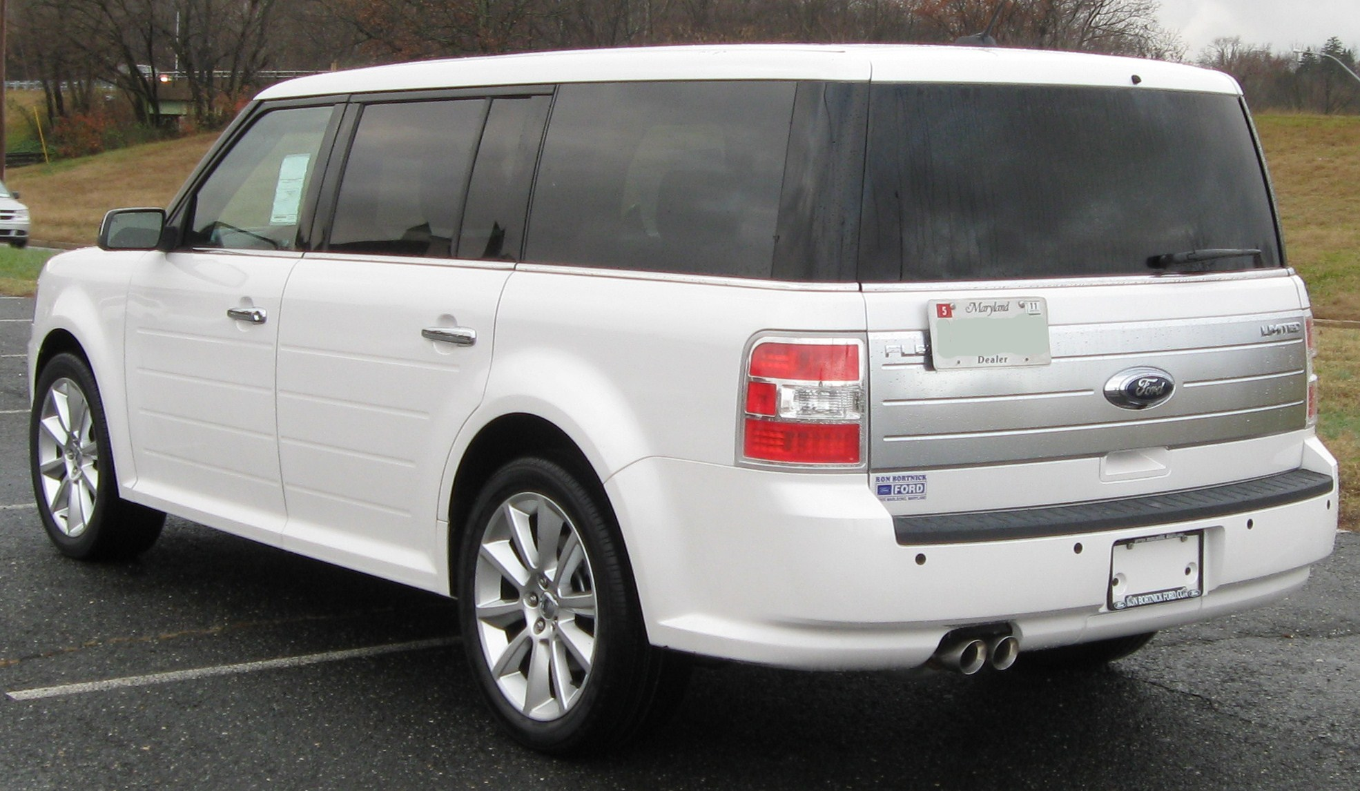 2010 Ford Flex photographed in Upper Marlboro, Maryland, USA.